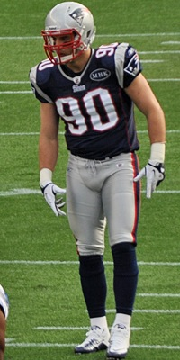 Wilfork and Koutouvides